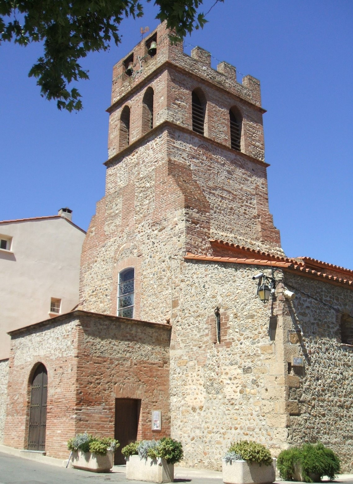 Saint-Estève (département of Pyrénées-Orientales, Languedoc-Roussillon région, France) : romanesque church of Saint-Estève (XIth-XIIth century), sole remain of the benedictine abbey of Saint-Estève ; tower (rebuilt in the XIXth century)